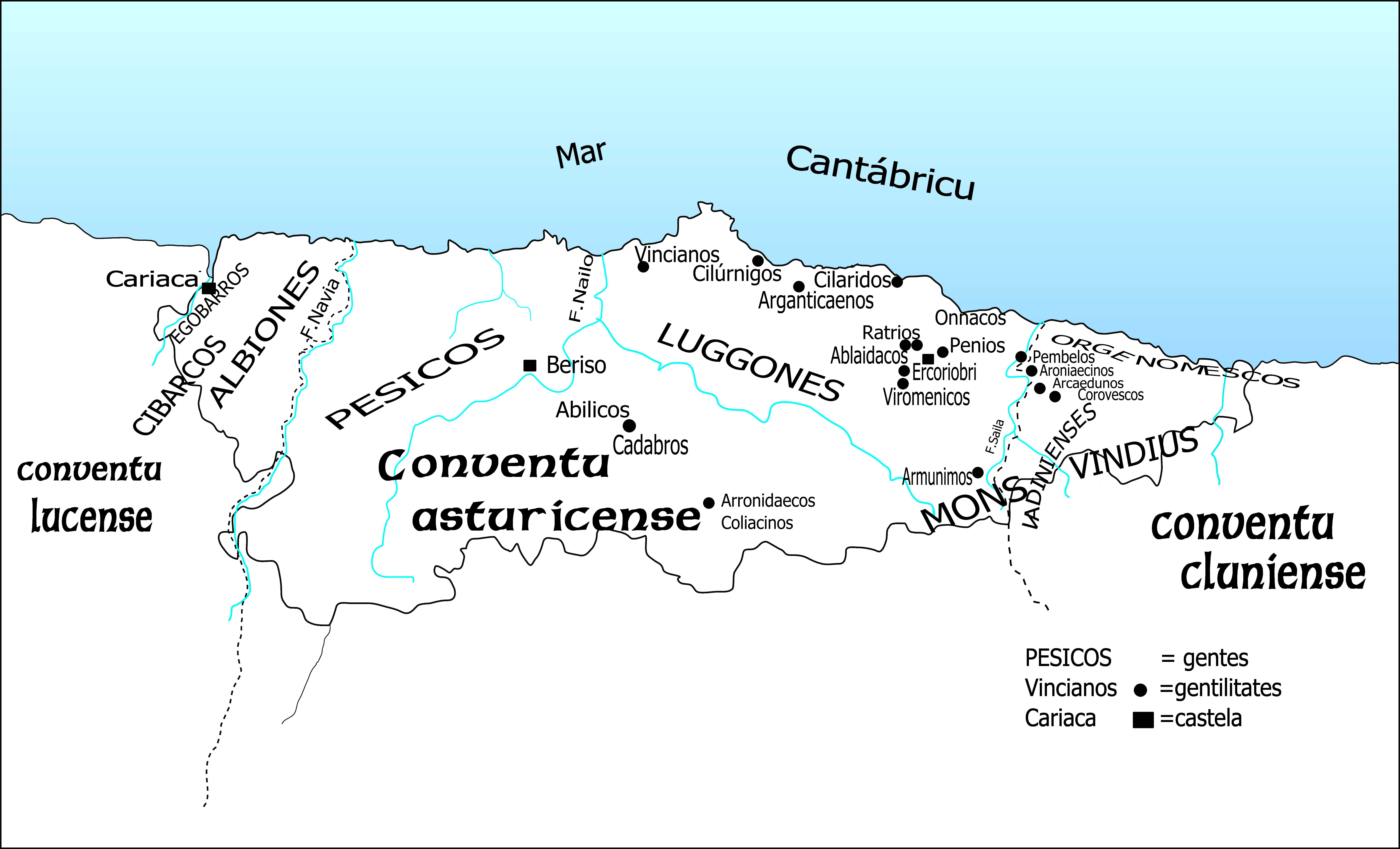 Gens y Gentilitates d'Asturies